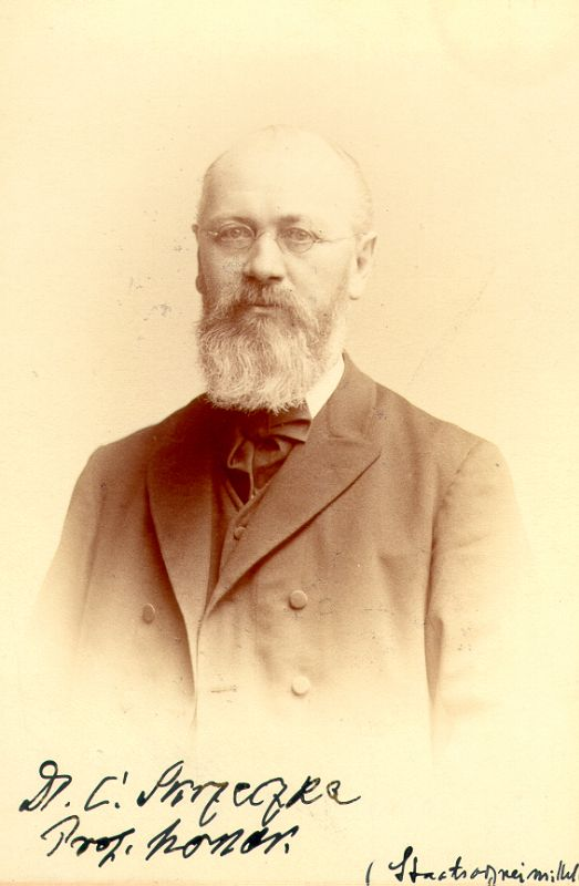 Karl Skrzeczka